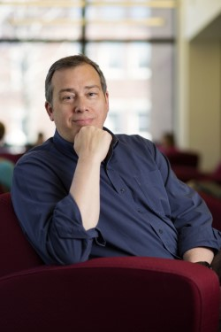 James Waller